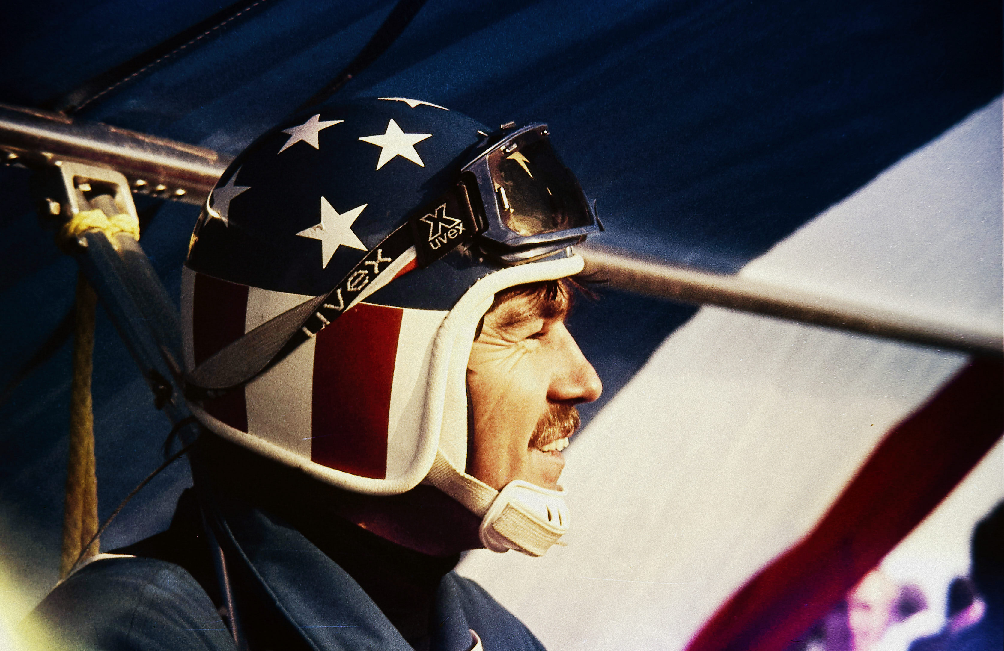 Mike Harker